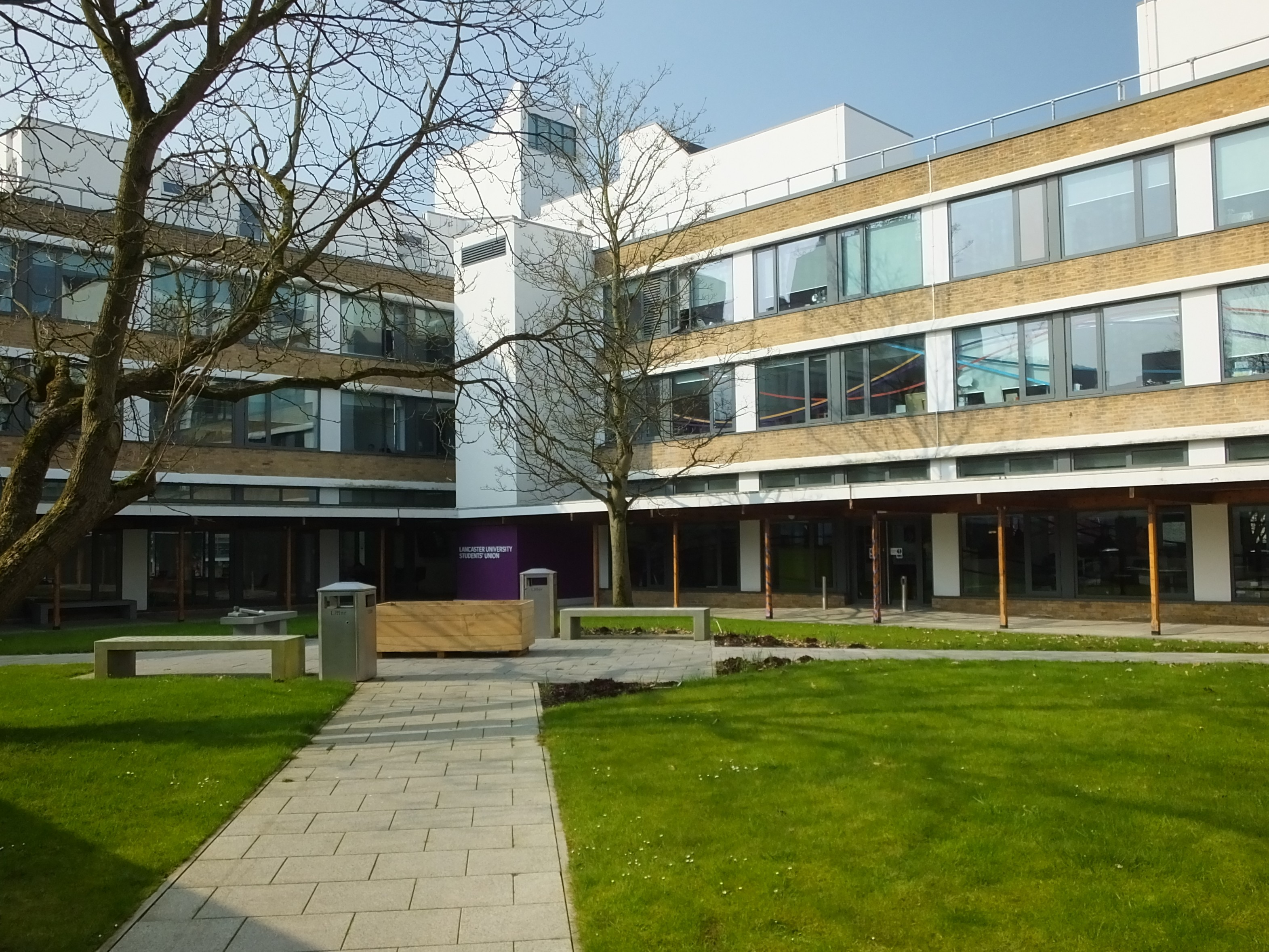 Lancaster University, taken during a vacation. The numbers in the filename cross refer to the official map.